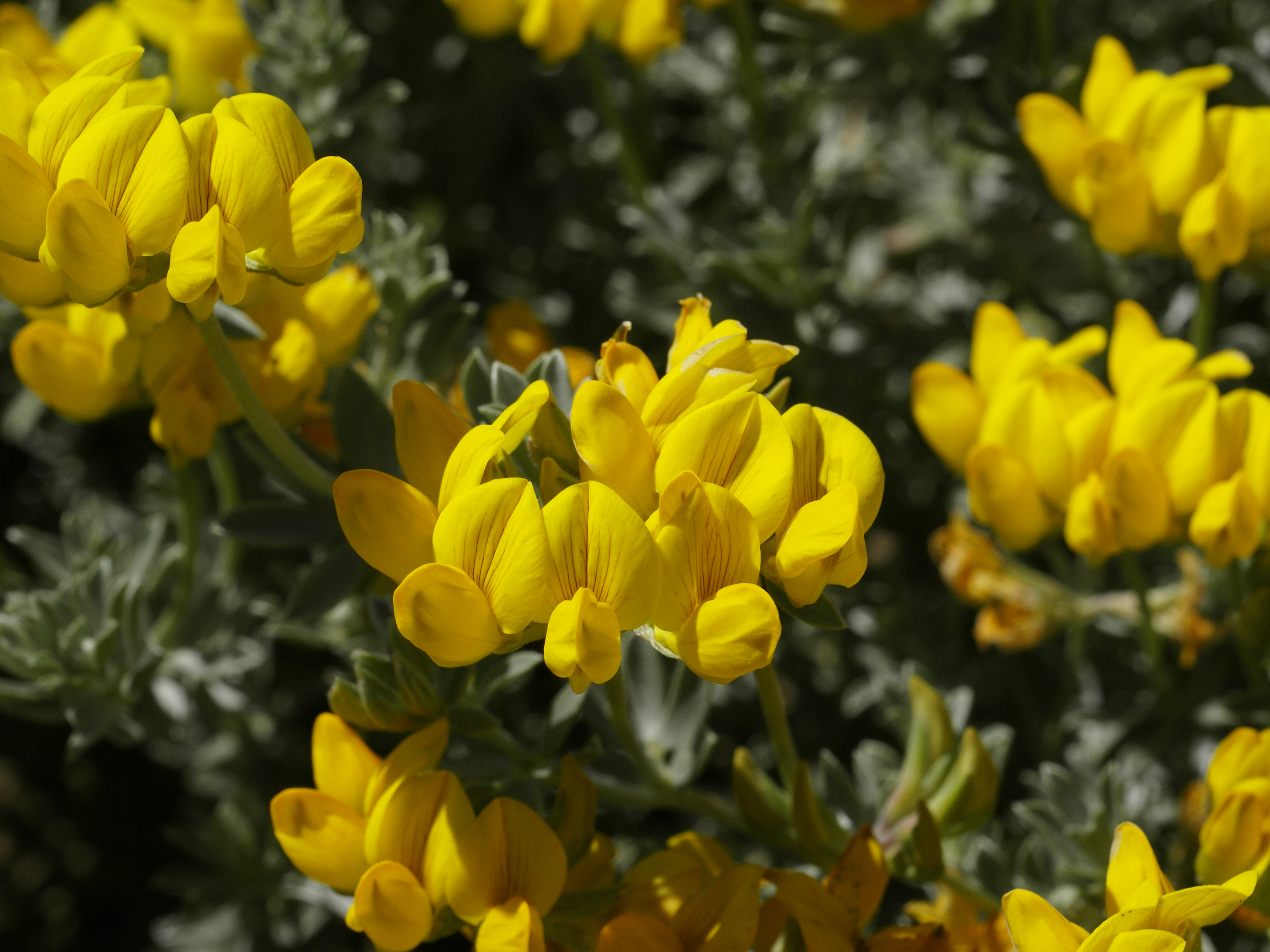 Flowers of Grey Bird's-Foot Trefoil at the Ebro Delta, Spain